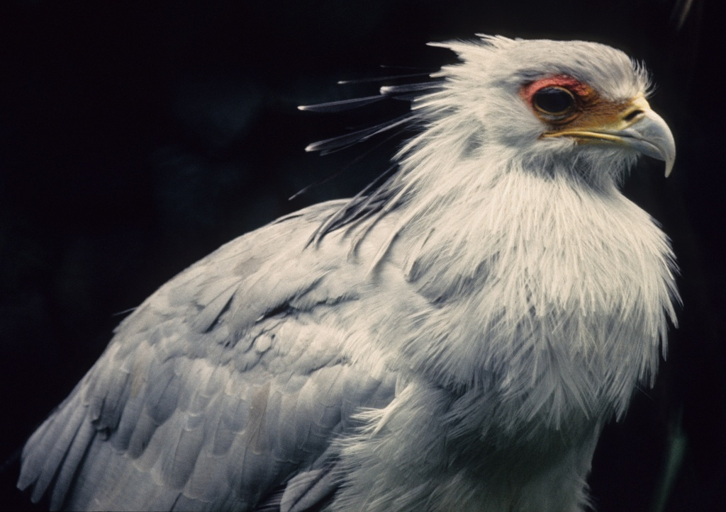 Secretary bird